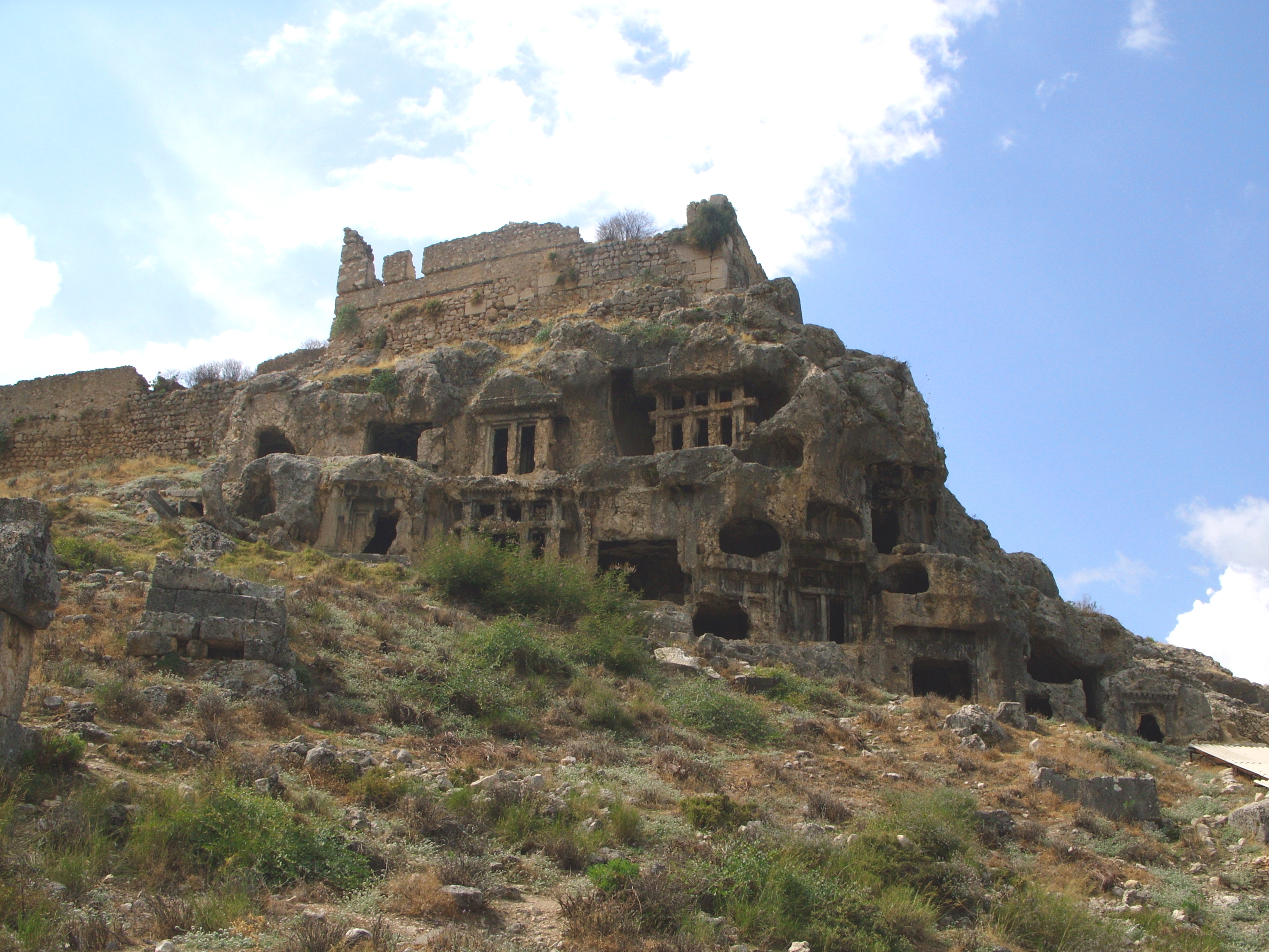 Tlos tomb ruins